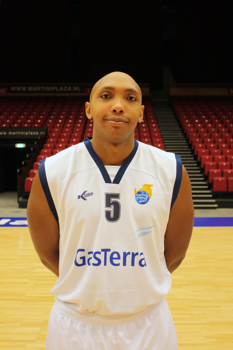 Sergio de Randamie in the GasTerra Flames uniform for the 2011-2012 season